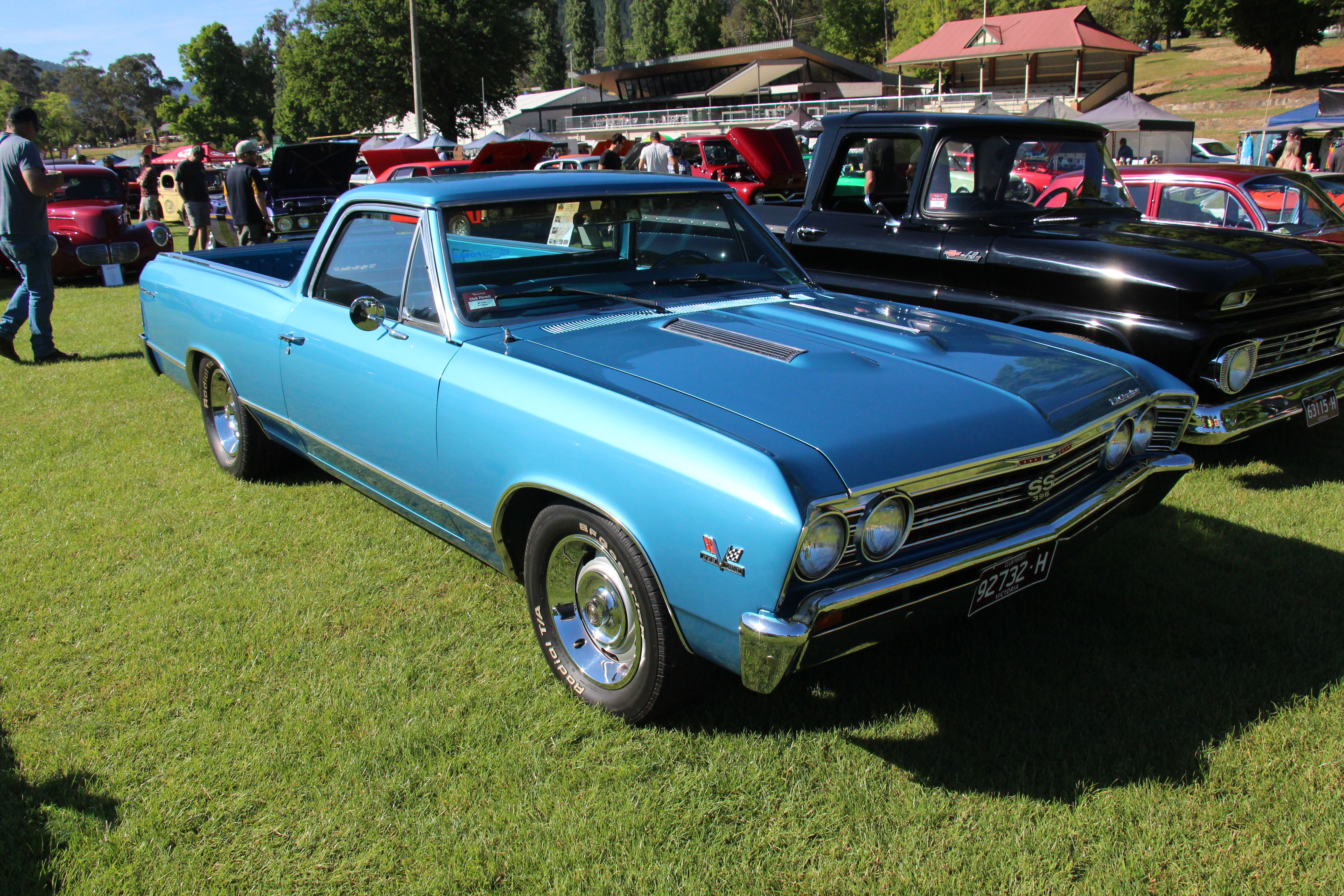 The Chevrolet Motor Company was formed in 1911. A mid sized car, the Chevelle was introduced in 1964. The 1966 Chevelle got an all new body; smoother with coke bottle styling. 1967 was just a facelift, an updated front and rear. The El Camino Coupe Utility was Chevelle based from 1964. Base model was the Chevelle 300, available in 2 or 4 door Sedans. Mid spec was the 300 Deluxe; 2 or 4 door Sedans and 4 Wagon. The upmarket model was the Chevelle Malibu; 2 door Hardtop, Convertible, 4 door Hardtop, Sedan and Wagon The Malibu SS396 (all SSs got the 396) the performance model, only available in 2 door Hardtop or Convertible, it got strengthened chassis, stiffer suspension, simulated hood scoops, extra chrome mouldings, bucket seats, console and extra gauges. The El Camino Coupe Utility was available in base or Custom (bucket seats and console) Engines; 120hp 194 ad 155hp 230 cu in 6 cyl, 195hp 283 V8, 250, 300 and 325hp 327 V8, 350hp 396 cu in V8 (only on SS) Also available in 1967 was the full size Biscayne, Bel Air and Impala, the C2 Corvette Sting Ray Sports car, the rear engine Corvair and the compact Chevy II (Nova) New for 67, the Camaro Pony Car